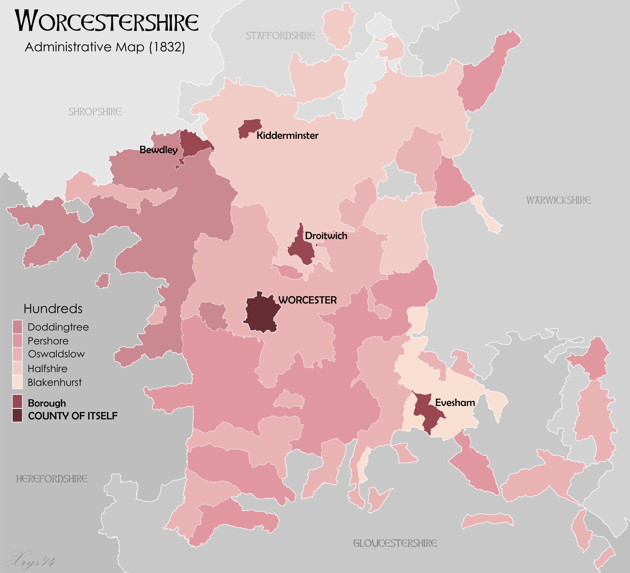 Administrative map of the ancient county of Worcestershire in 1832 showing hundreds and boroughs. Hundred boundaries from University of Nottingham English Place Name Society. Source data on parish boundaries - Kain, R.J.P., and Oliver, R.R. (2001) "Historic parishes of England and Wales: Electronic Map - Gazetteer - Metadata", Colchester: History Data Service. ISBN 0 9540032 0 9. Source data for Boroughs: H.M.S.O. Boundary Commission Report 1832 (courtesy of